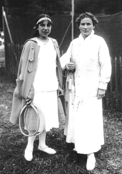 Tennis players Suzanne Lenglen and Elizabeth Ryan at the French Championships in 1914.